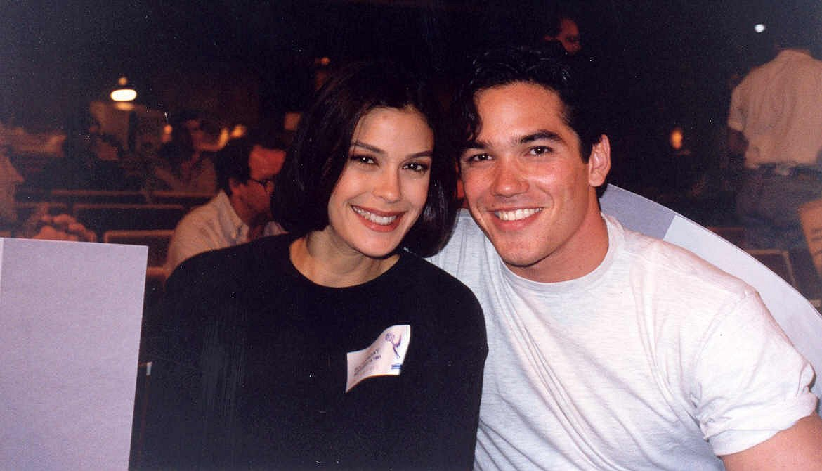 Teri Hatcher and Dean Cain at the 45th Emmy Awards, 19. September 1993